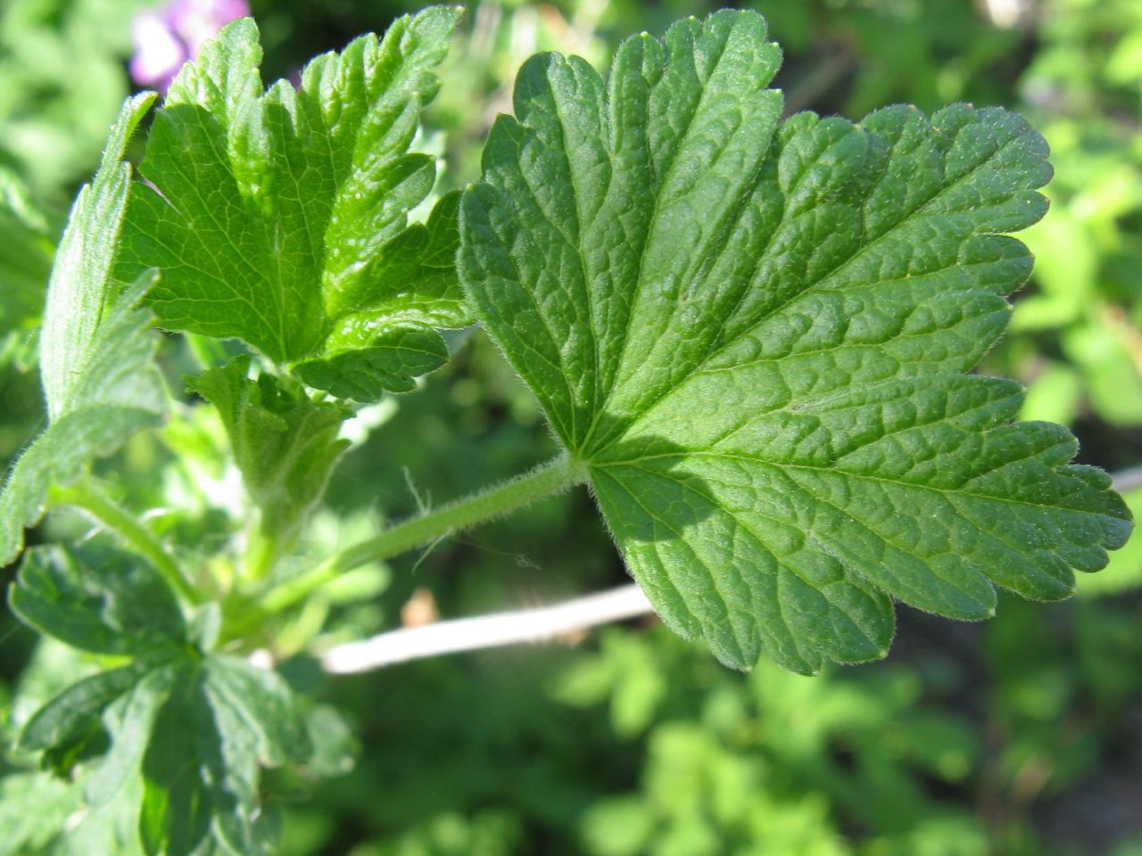 Toronto, Ontario, cultivated, derived from wild plant